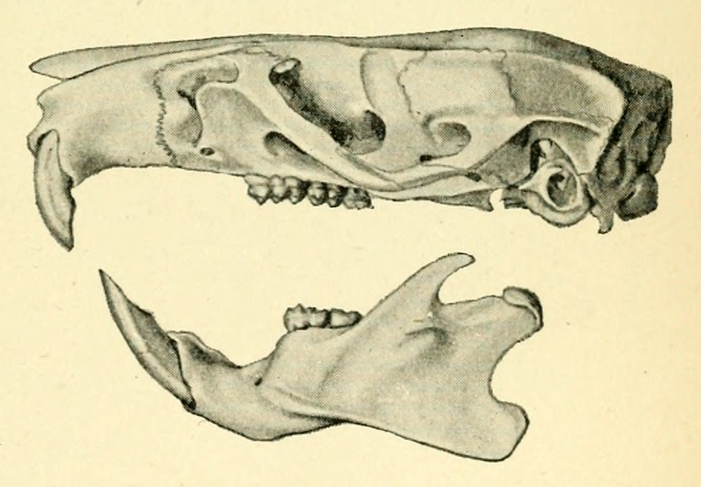 A skull of the Maclear's Rat (Rattus macleari).